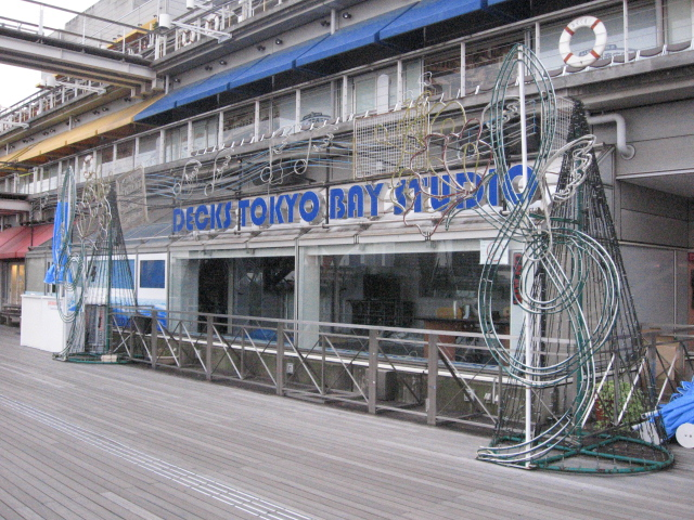 DECKS TOKYO BAY STUDIO